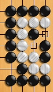 A seki. If black plays at the sqaures he will lose his stones and white will live. If white plays there he puts himself in atari.